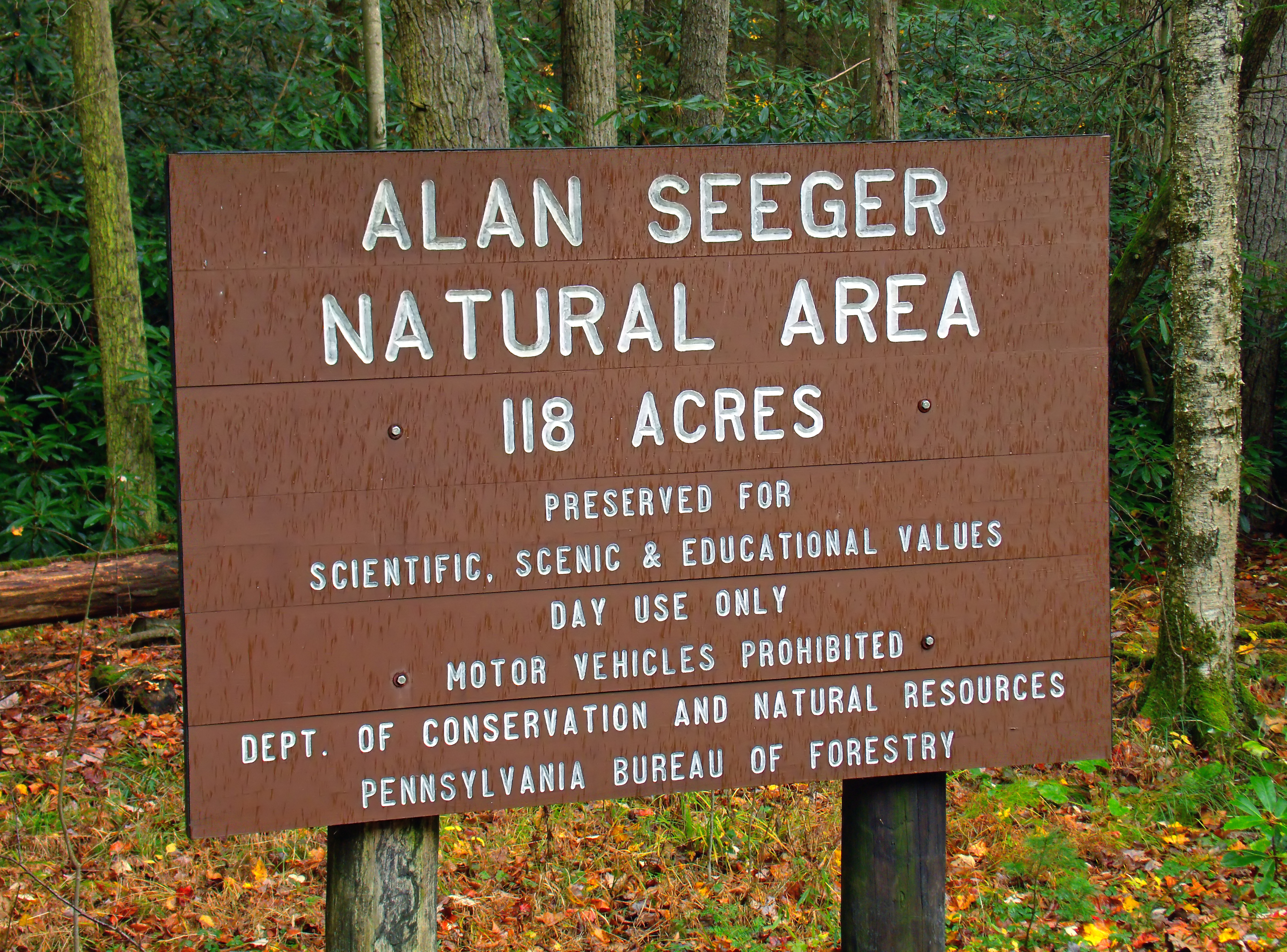 Alan Seeger Natural Area sign, Rothrock State Forest, Huntingdon County. The natural area protects a tract of old-growth forest (hemlocks, white pines, and mixed hardwoods) in a broad stream valley. The Detweiler Run Natural Area, another old-growth site, is nearby. Although the original forest of the area was largely logged off by the 1840s, many trees were spared—possibly because of property-boundary disputes or surveying errors. The researchers Nowacki and Abrams cored hemlocks at the site that are now more than 500 years old, as well as hardwoods that are nearly as old. Their research is published in the Bulletin of the Torrey Botanical Club (1994).